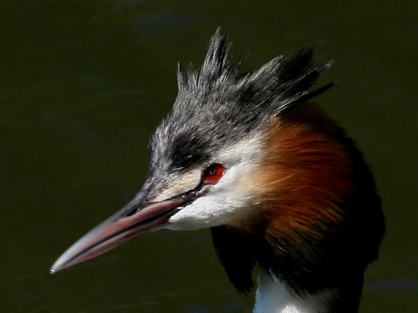 Great Crested Grebe (Podiceps cristatus)